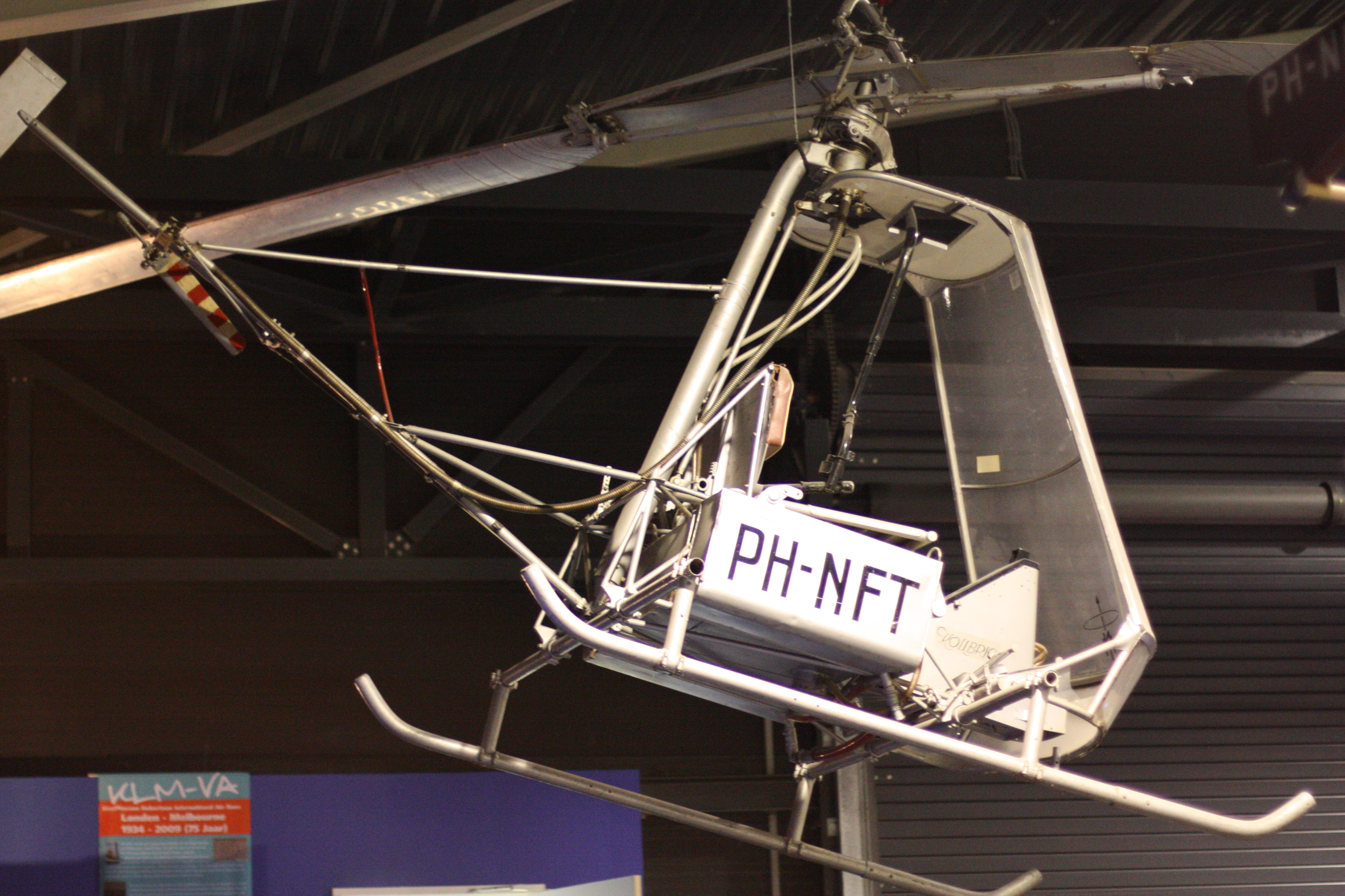 Lelystad Flugsimulatorwochenende, bei Amsterdam, November 2009; Flight Simulation conference at Aviodrome Lelystad